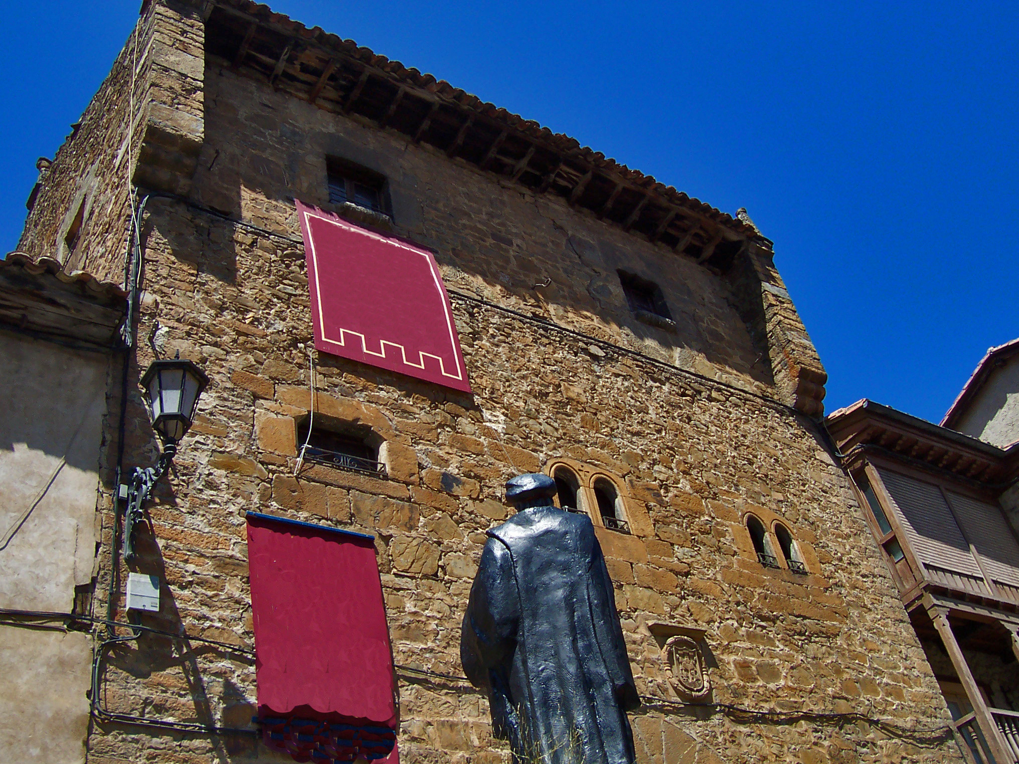 Torre de Orejón de la Lama in Potes, Cantabria, Spain